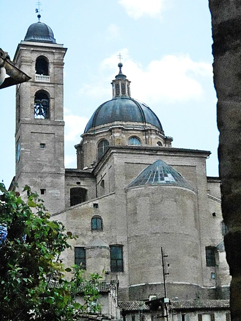 view of the cathedral